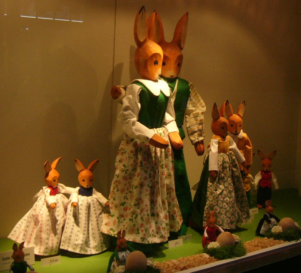 Bremen, wood familiy of easter Bunnies